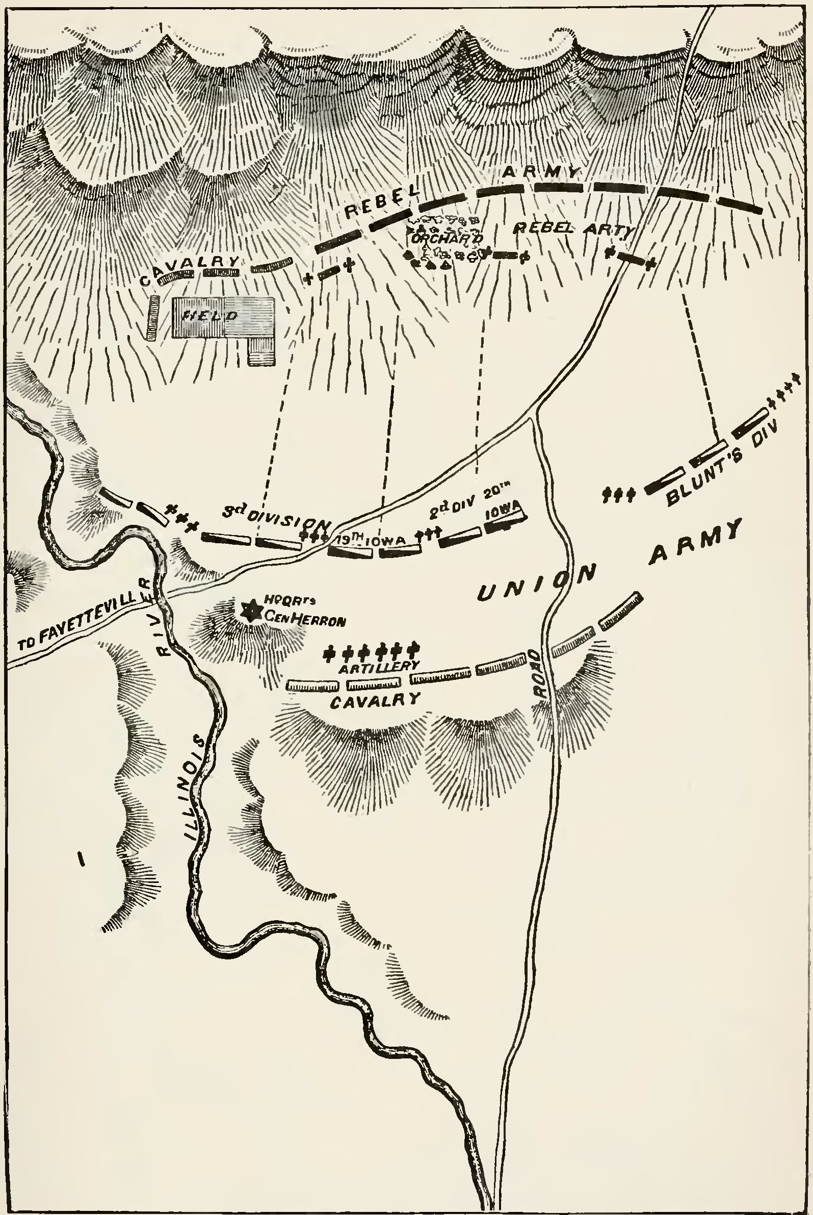 Illustration in History of Iowa From the Earliest Times to the Beginning of the Twentieth Century